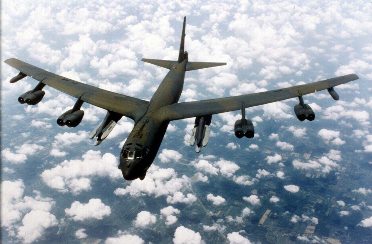 B-52 in flight FILE PHOTO -- Air Combat Command's B-52 is a long-range, heavy bomber that can perform a variety of missions. The bomber is capable of flying at high subsonic speeds at altitudes up to 50,000 feet. It can carry nuclear or conventional ordnance with worldwide precision navigation capability. In a conventional conflict, the B-52 can perform air interdiction, offensive counter-air and maritime operations. During Desert Storm, B-52s delivered 40 percent of all the weapons dropped by coalition forces. It is highly effective when used for ocean surveillance, and can assist the U.S. Navy in anti-ship and mine-laying operations. Two B-52s, in two hours, can monitor 140,000 square miles of ocean surface. (U.S. Air Force photo) text